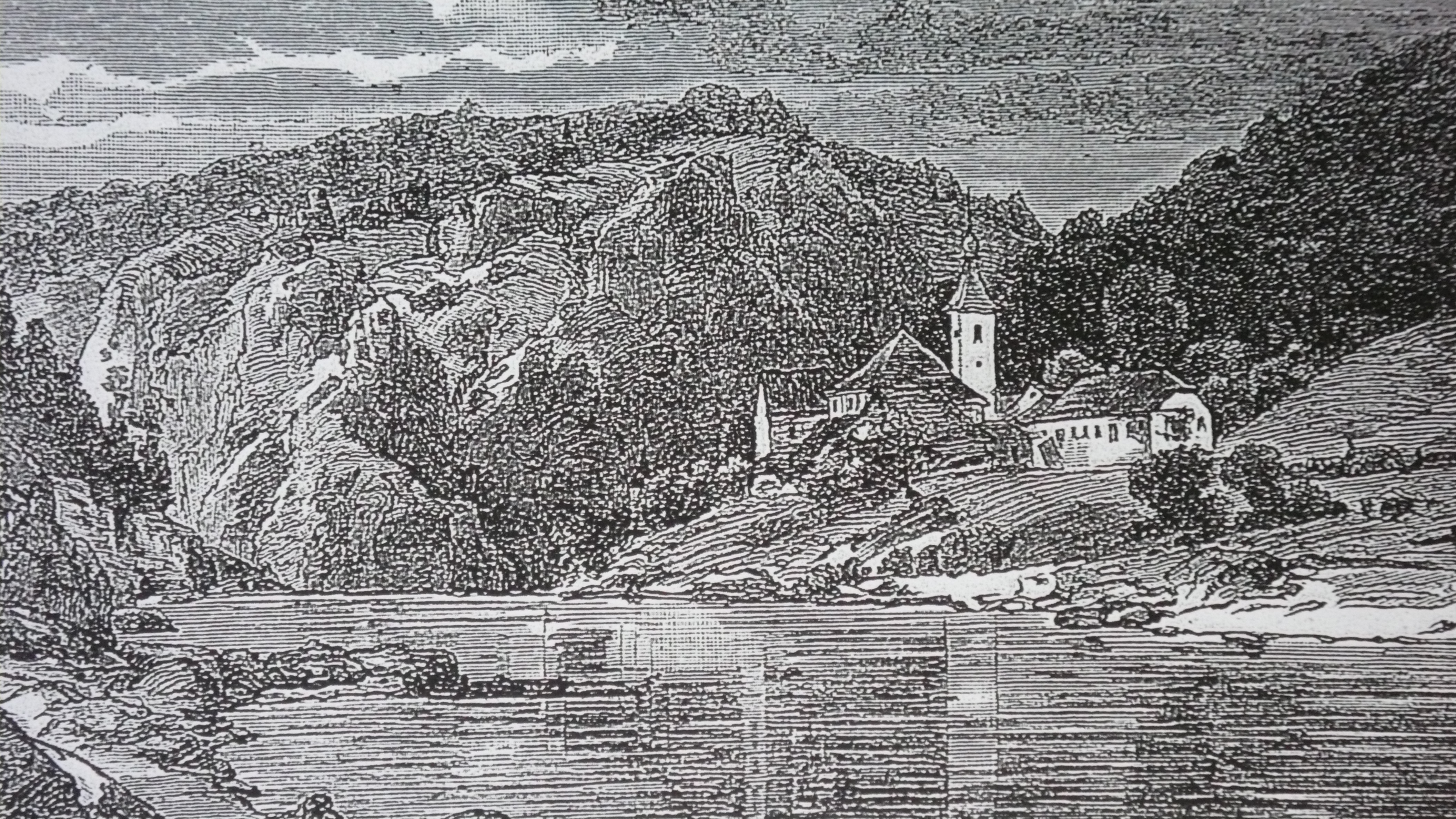 St. Bartholomews church, engraving from 19. century